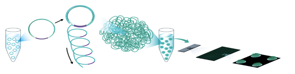 A schematic description of DNA nanoball creation and their adsorption to a patterned array flowcell